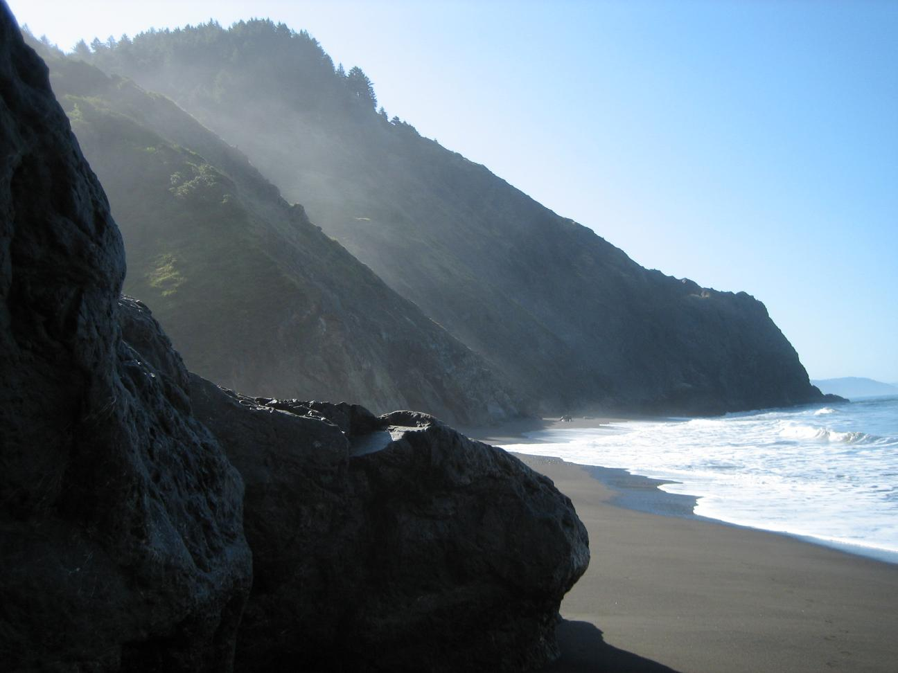 The Lost Coast is a section of California's north coast in Humboldt County.Morning on the Lost Coast